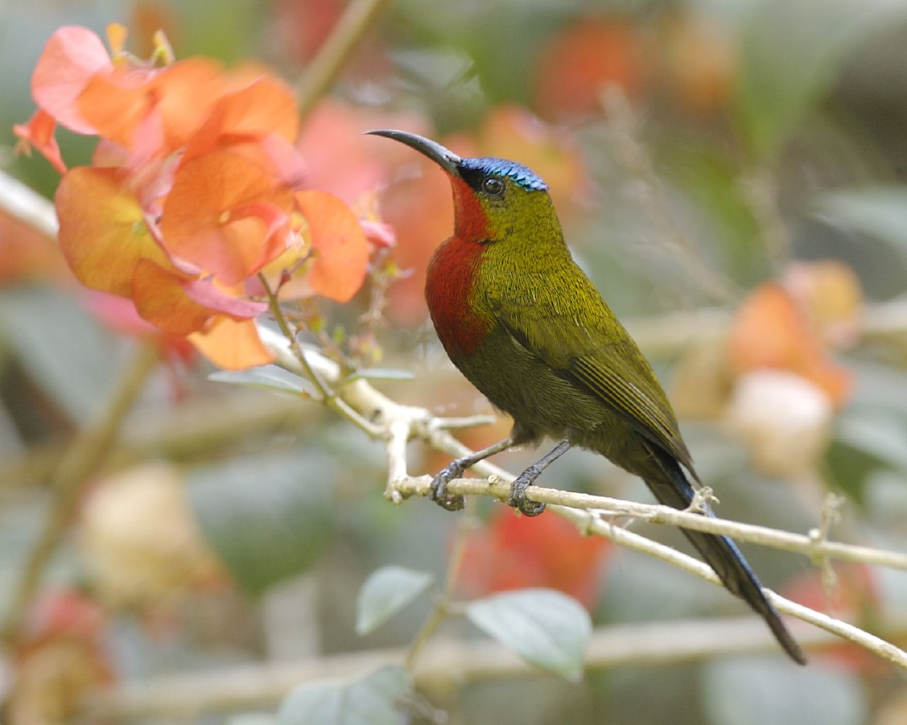 White-flanked Sunbird Aethopyga eximia 11th. August 2007 Location : Gunong Gede, Java, Indonesia Habitat: alt. names: White flanked Sunbird, Kühl's sunbird Indonesian: Burung madu gunung (translated word for word as bird honey mountain) The white flank is not obvious here but well seen in this other photo of the same bird See my mate: Distribution